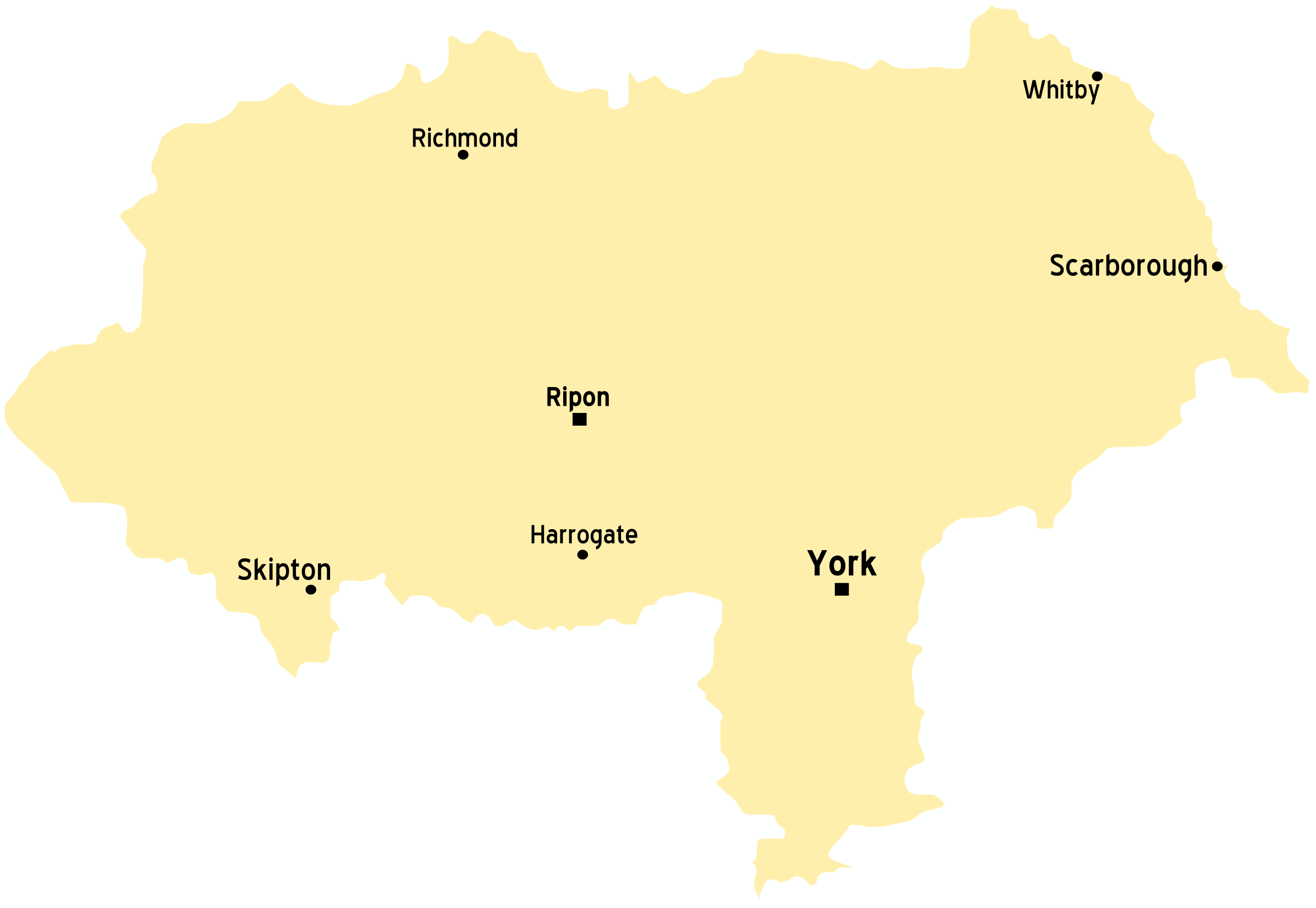 Map of North Yorkshire Source: :Image:UK map.svg map: United Kingdom Map of: United Kingdom